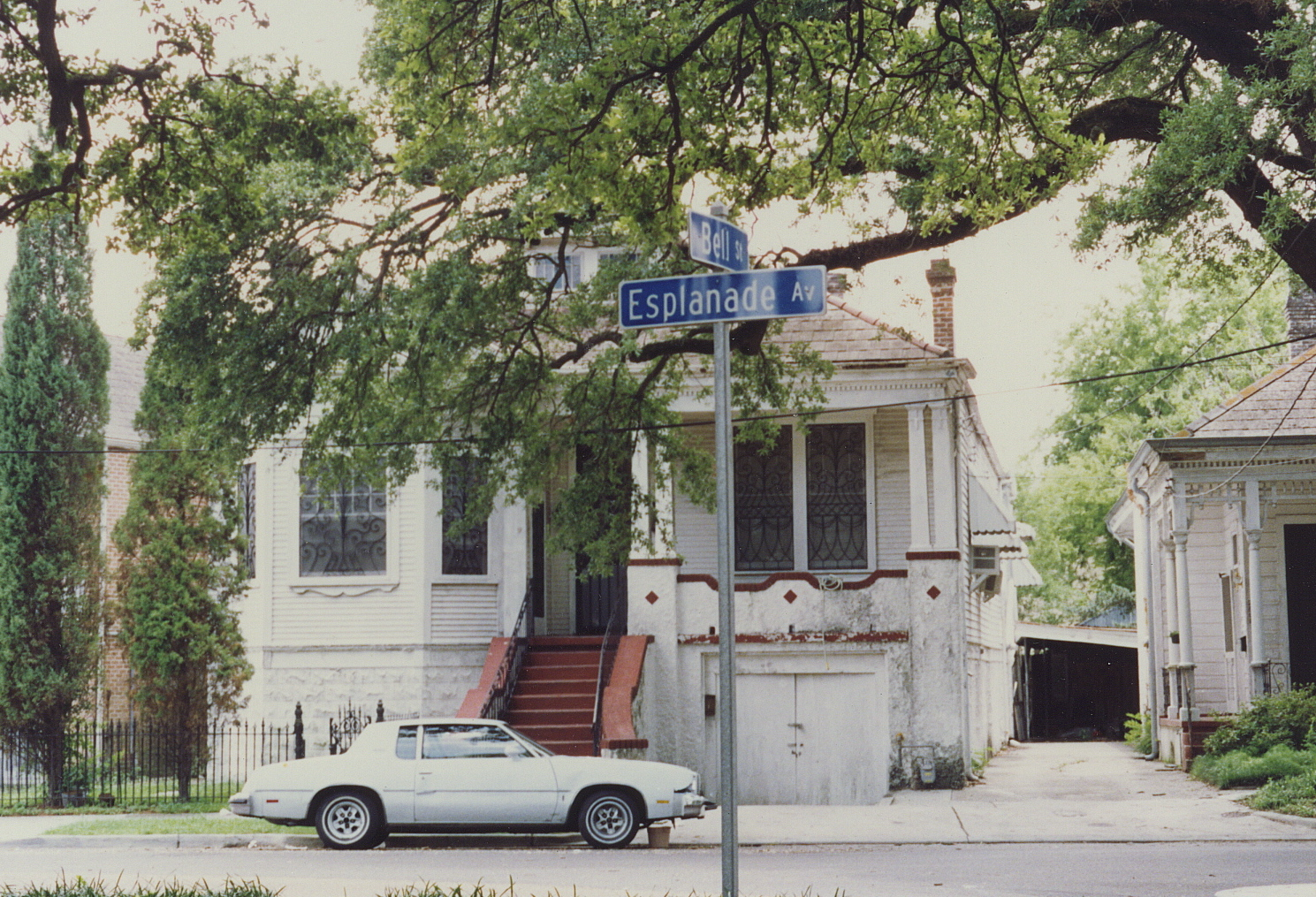 New Orleans: House at Bell & Esplanade Streets back from Broad Avenue. Formerly family home of Paul and Joe Mares; New Orleans Rhythm Kings held rehersals for their 1920s New Orleans recordings here.